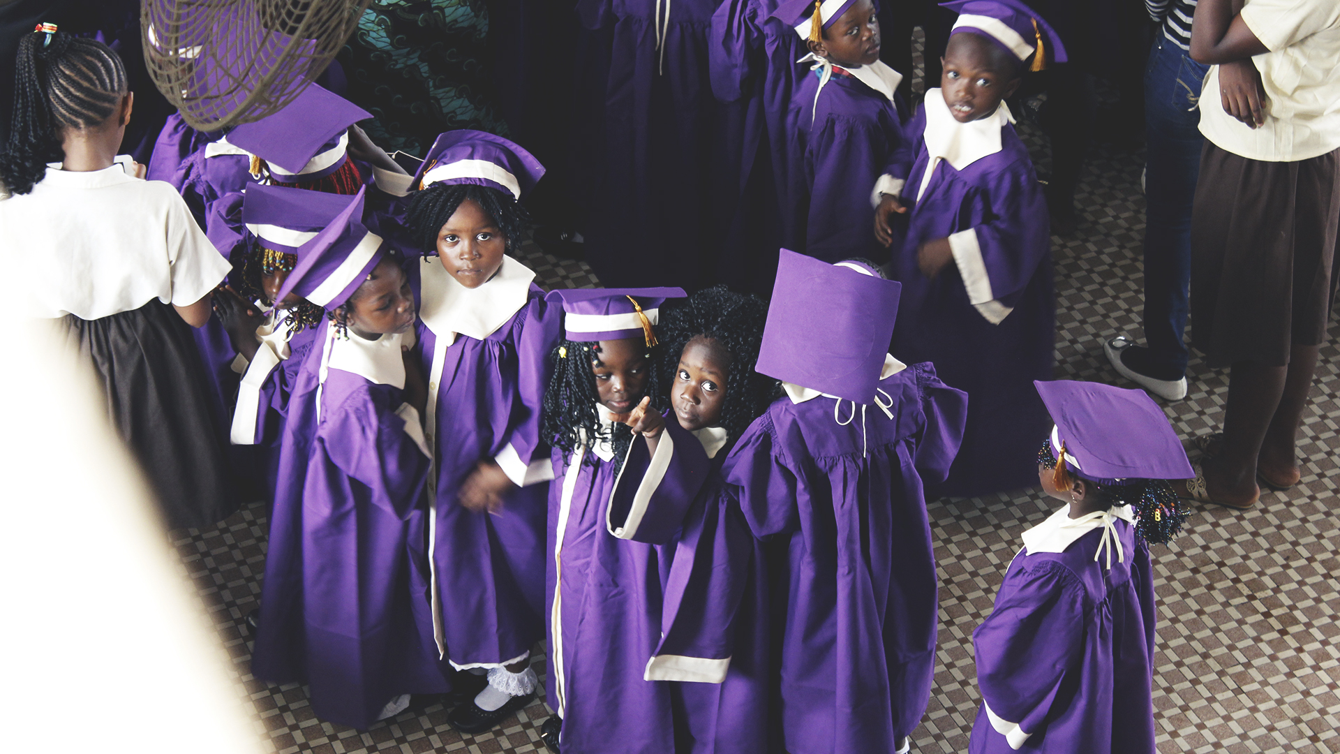 This is an image of Cultural Fashion or Adornment from Cameroon